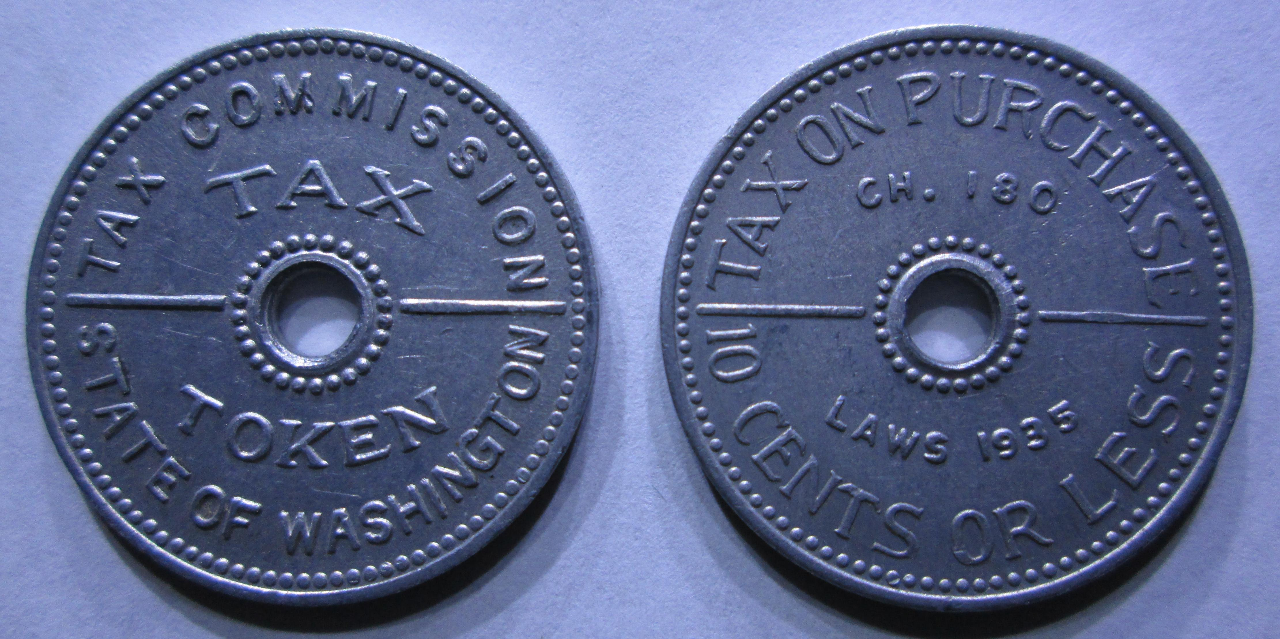 Washington state sales tax tokens dated 1935. Obverse and reverse obverse: TAX COMMISSION STATE OF WASHINGTON / TAX TOKEN reverse: TAX ON PURCHASE 10 CENTS OR LESS / CH. 180 LAWS 1935